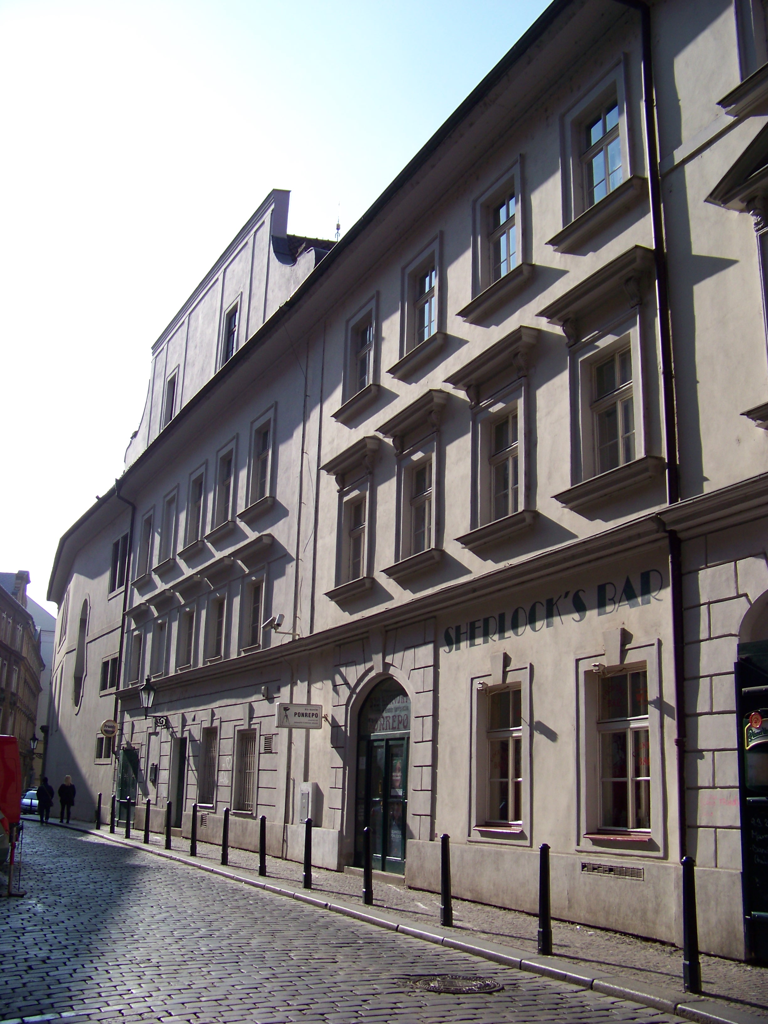 Prague-Old Town, Czech Republic. Bartolomějská 291/11.